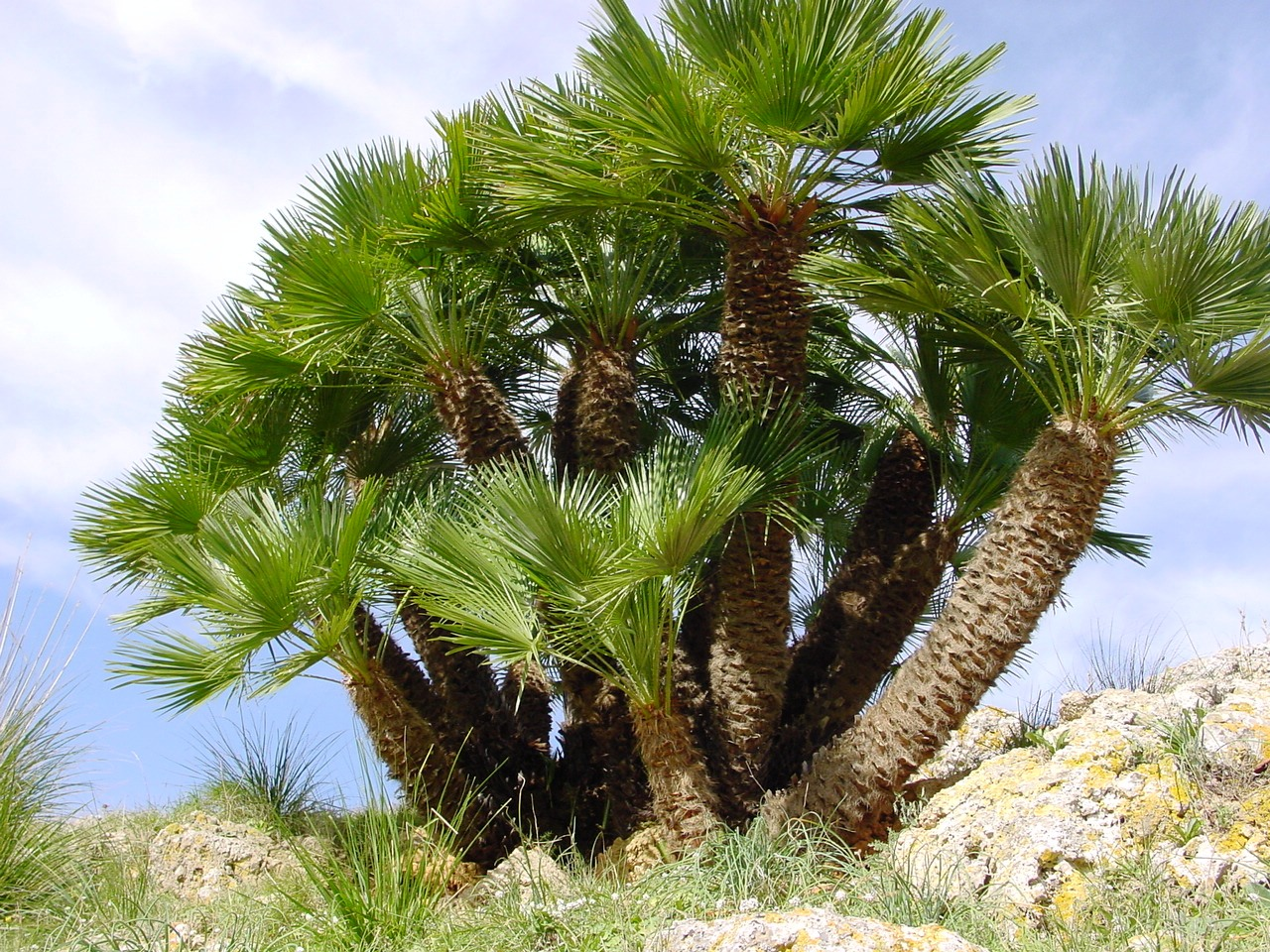 Riserva naturale dello Zingaro, Sicily Chamaerops humilis